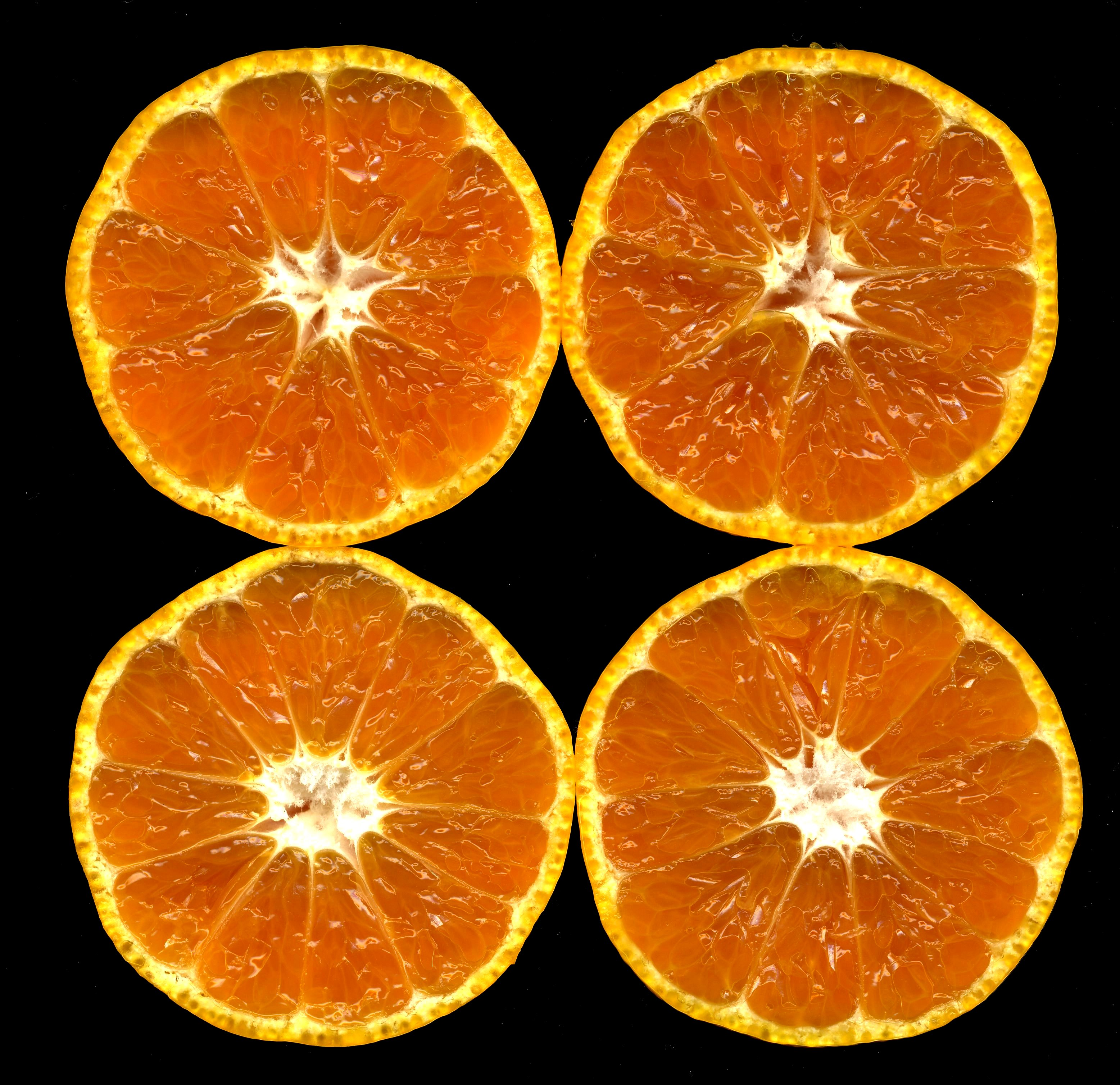 Citrus unshiu - Horizontal section photograph